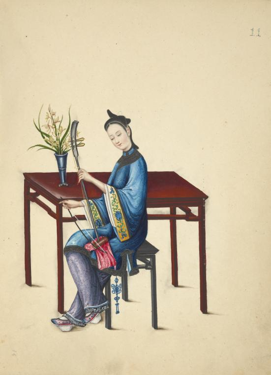 China watercolours from 1800s; woman playing a jinghu